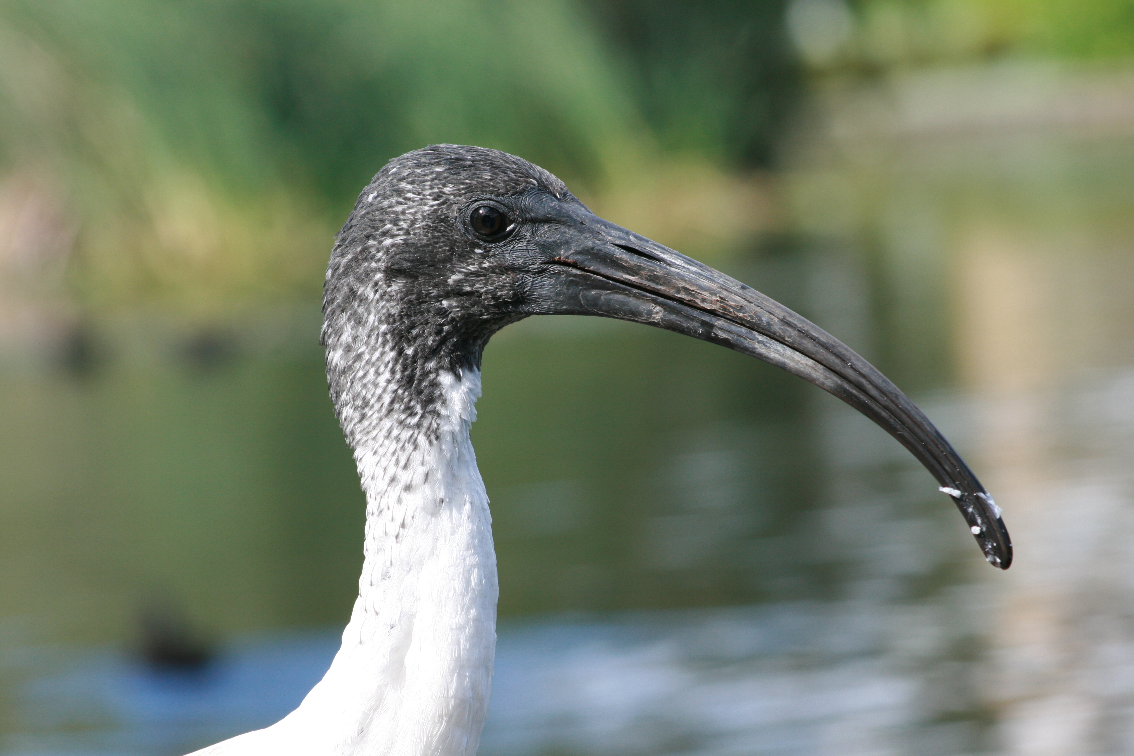 Australian White Ibis juvenile head and neck at Victoria Park, Sydney.